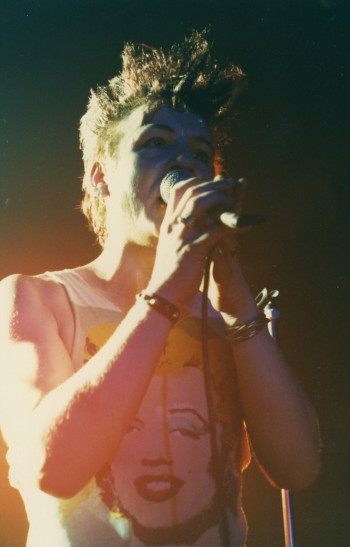 Subject: Nick Marsh of Flesh for Lulu Date: February, 1987 Place: Onstage at Club Nine in San Francisco, California, USA Photographer: Andwhatsnext Original 35mm photograph scanned Credit: Copyright (c) 1987 by Nancy J Price